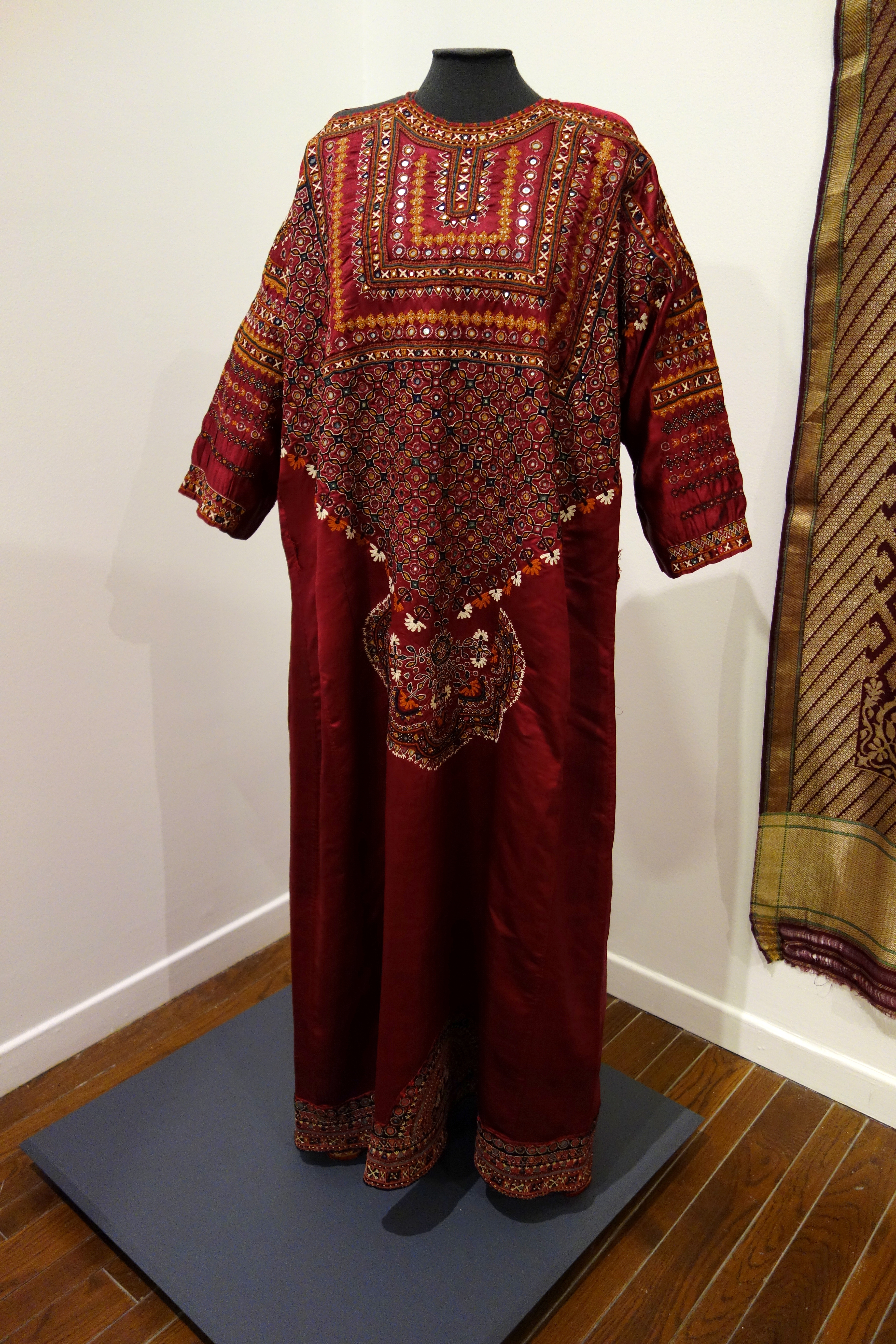 Exhibit in the Textile Museum of Canada, 55 Centre Avenue, Toronto, Ontario, Canada.